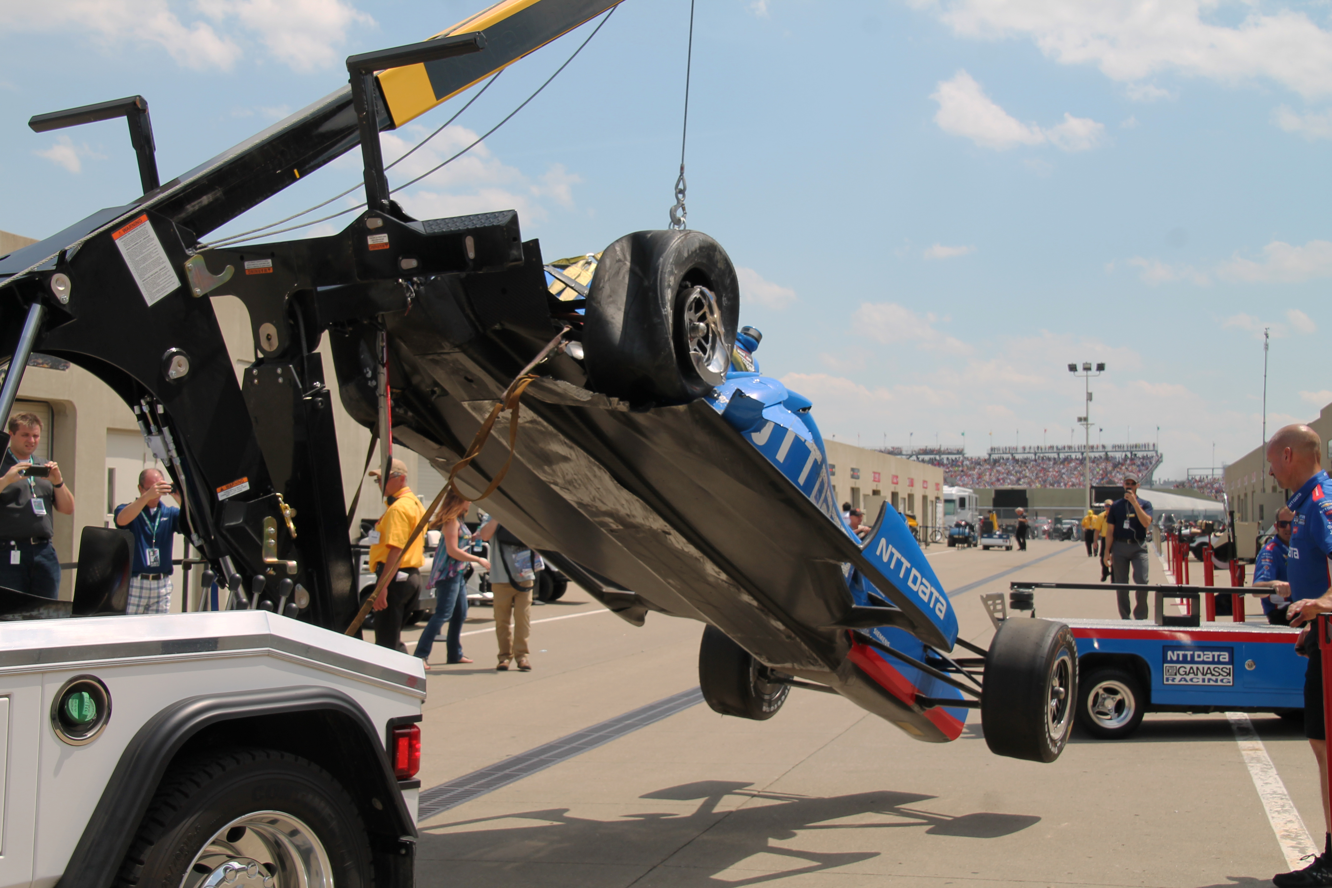 Tony Kanaan's car returns to the garage after an accident at the 2015 Indianapolis 500